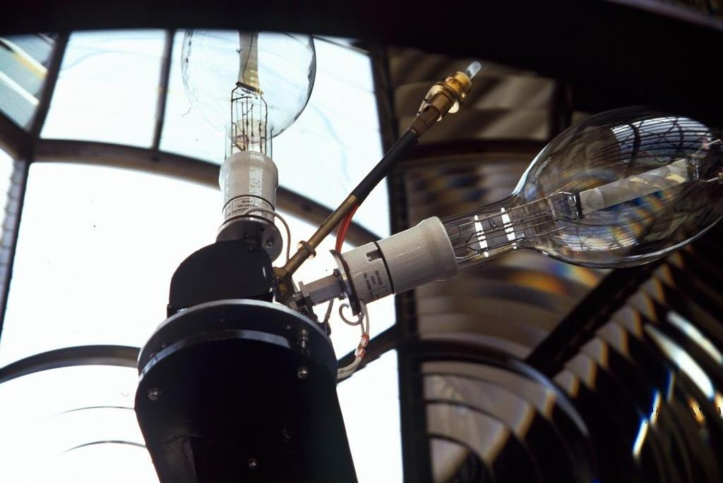 Light bulbs in Portland Bill Lighthouse.